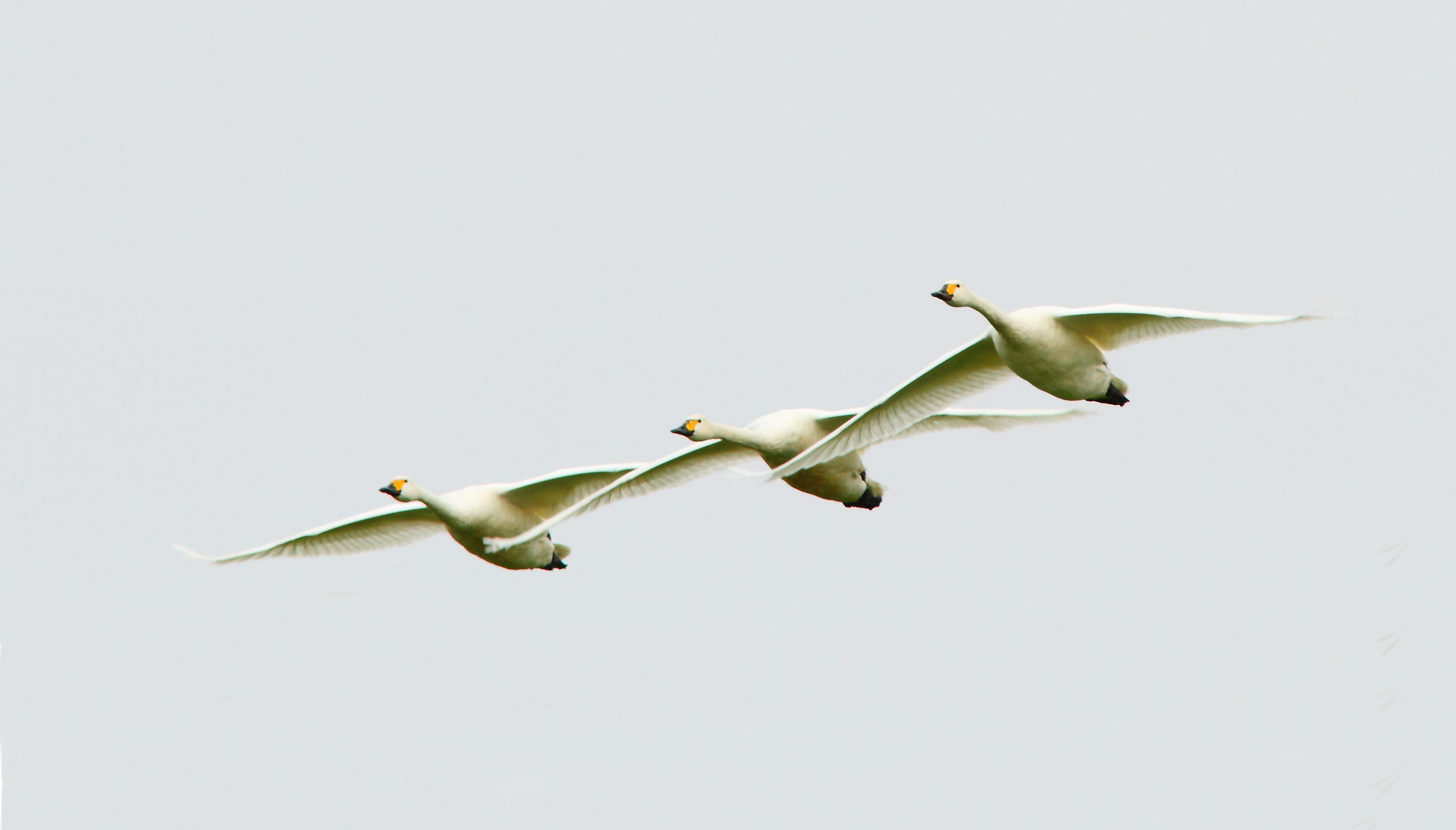 A flight of Bewick's swans in the polder of Arkemheen, the Netherlands, in wintertime.